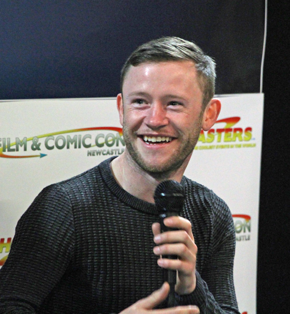 Devon Murray at Convention